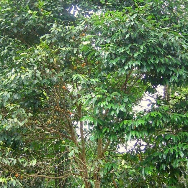 Cambucá Tree